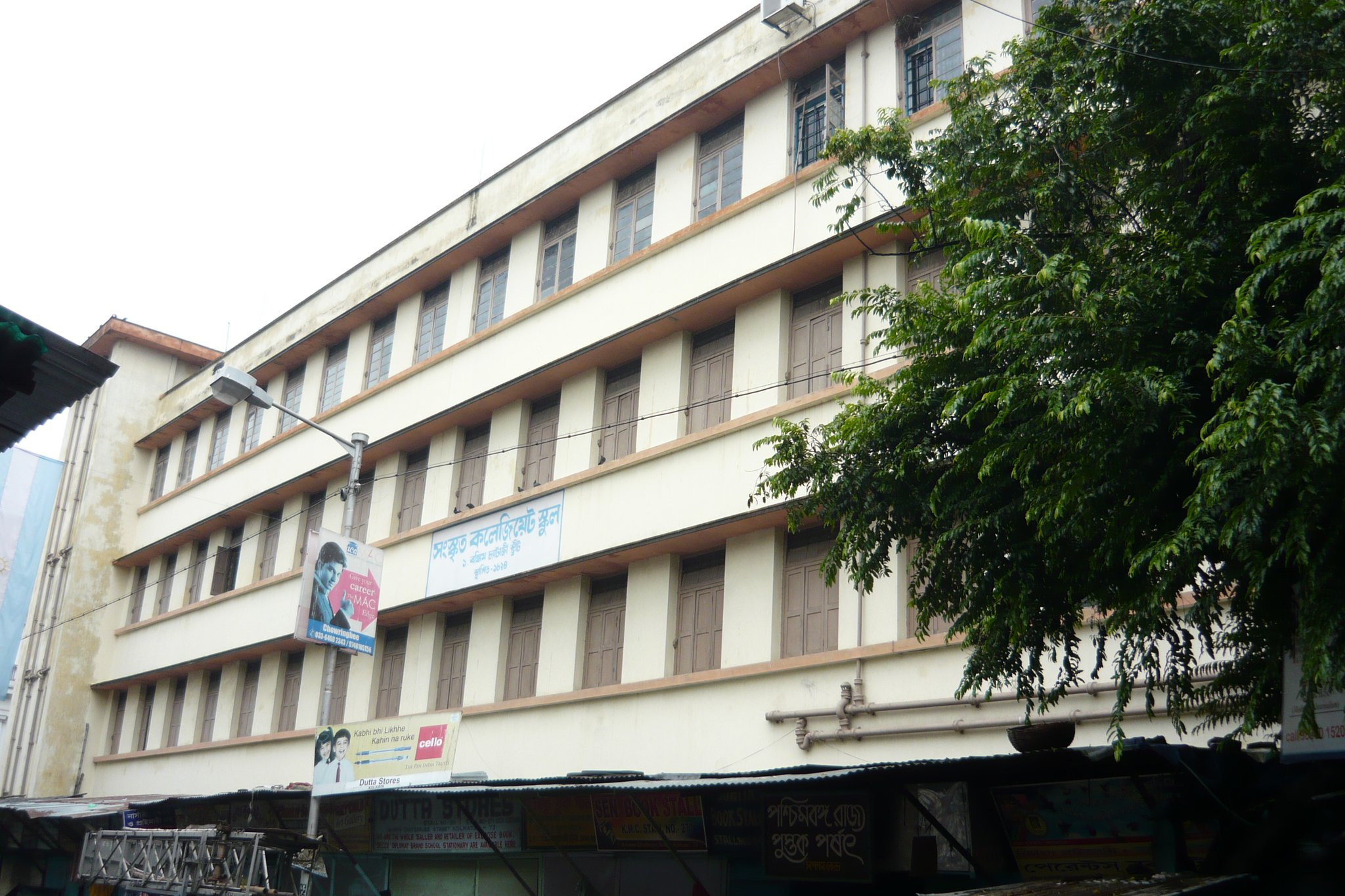 Sanskrit Collegiate School, Calcutta